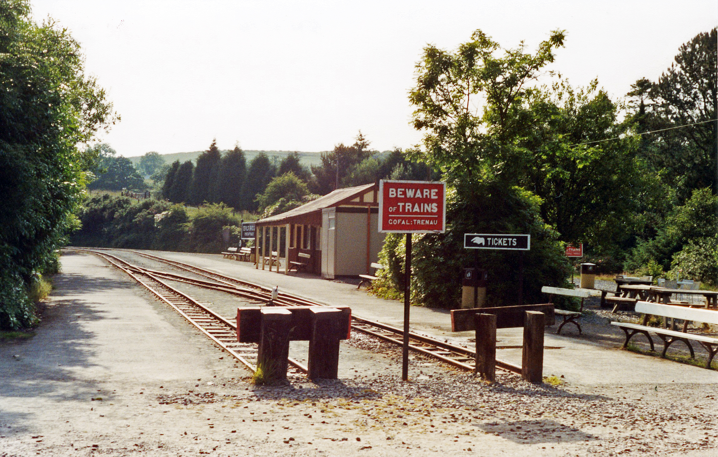 Devil's Bridge, terminus of Vale of Rheidol line, 1992. View NW, towards Aberystwyth down the Afon Rheidol valley - remarkably deserted. The 1' 11¾" narrow-gauge line, built 1902, was operated by the Cambrian Railways until 1922, then the GWR and BR(WR) until privatised in 1989.